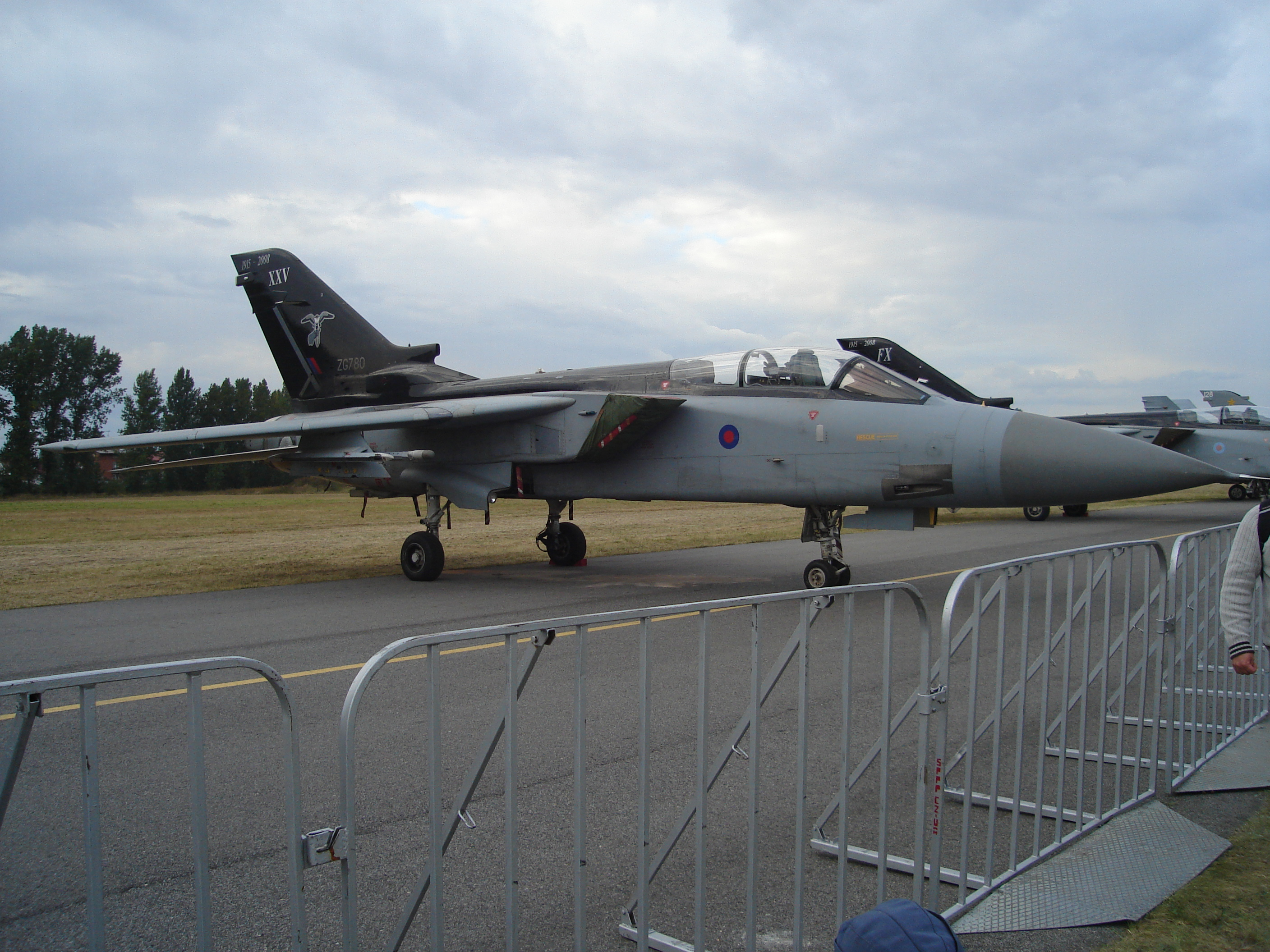 Picture of Panavia Tornado F3, Radom Air Show 2007